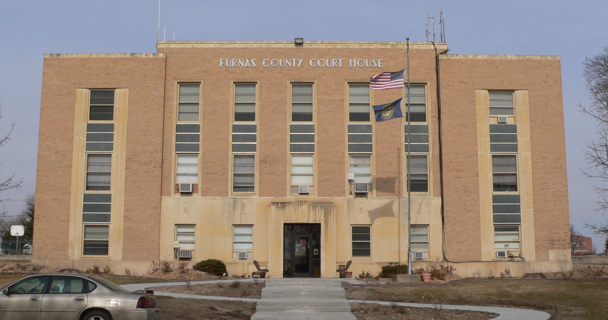 Furnas County courthouse in Beaver City, Nebraska; seen from the south. The building was constructed in 1949.